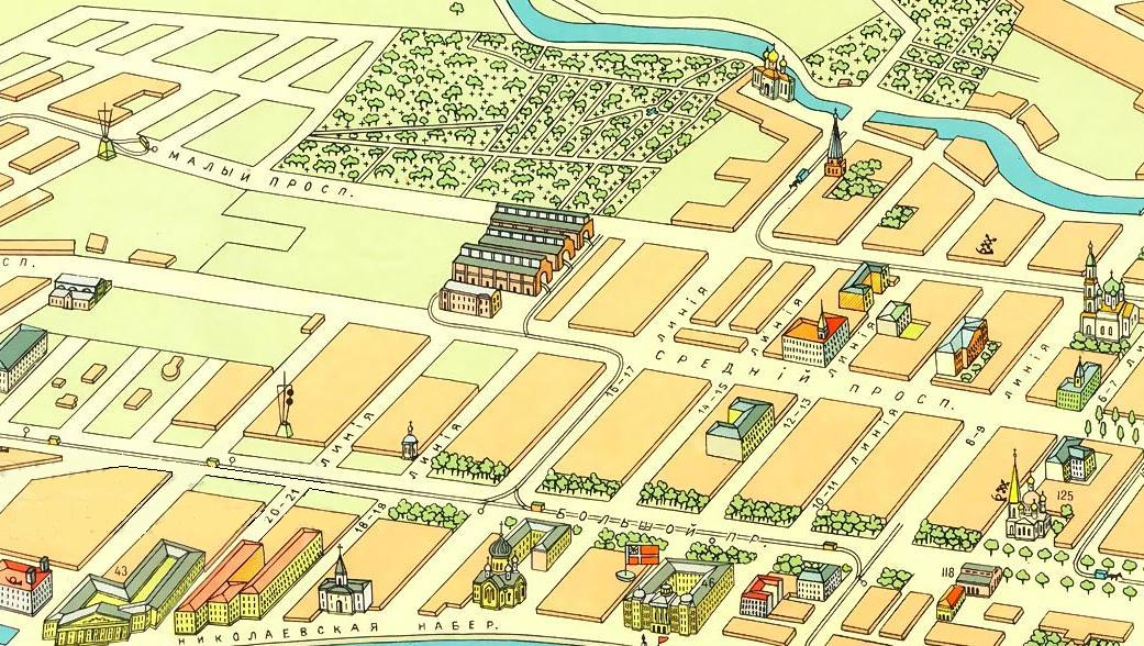 Vasileostrovsky tram depot on 1913 year map